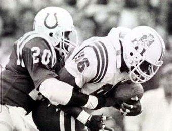 New England Patriots' lineman Brent Williams (right) getting tackled by the Indianapolis Colts' kick returner Albert Bentley (left) during an National Football League game circa 1988.